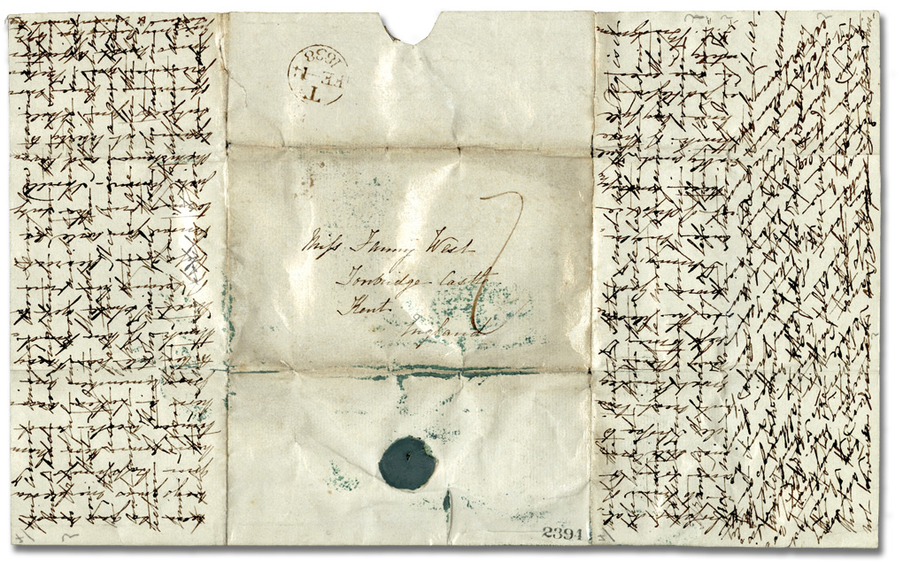 A crossed letter written by Mrs. F. L. Bridgeman to Fanny West, December 15, 1837. (Miscellaneous Collection; Reference Code: F775 (1837-10); Archives of Ontario)